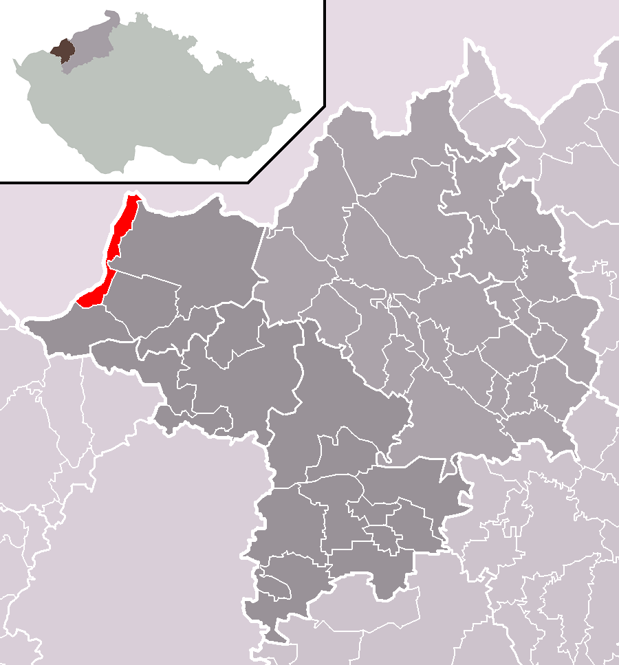 Location of Vejprty town within Chomutov District and administrative area of Kadaň as a Municipality with Extended Competence.